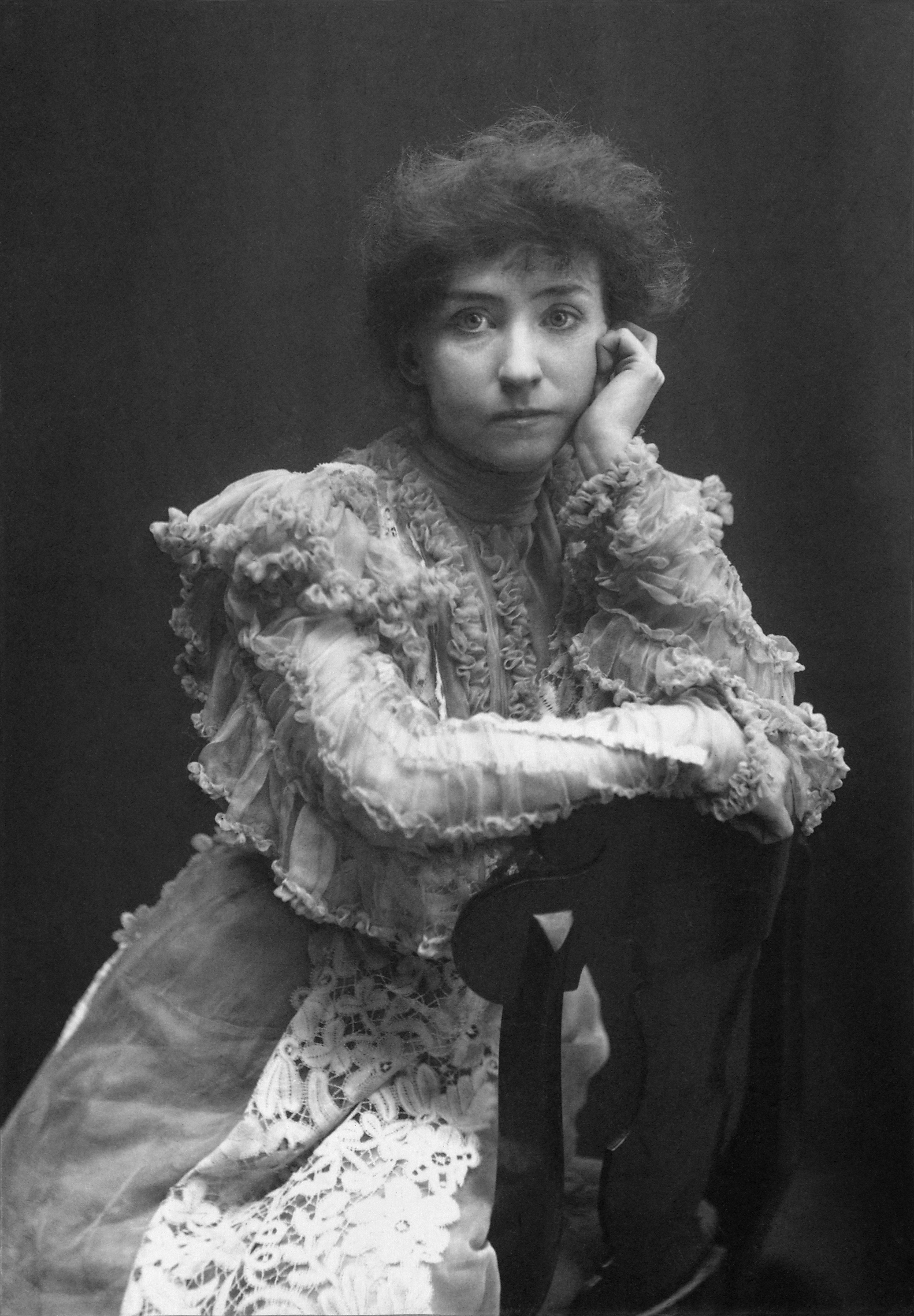 American actress Minnie Maddern Fiske, a.k.a. Mrs. Fiske (1865-1932) in a portrait photograph entitled Mrs. Fiske, "Love Finds the Way", by Zaida Ben-Yusuf. The photograph was taken in 1896 and the scan was made from a photographic print.